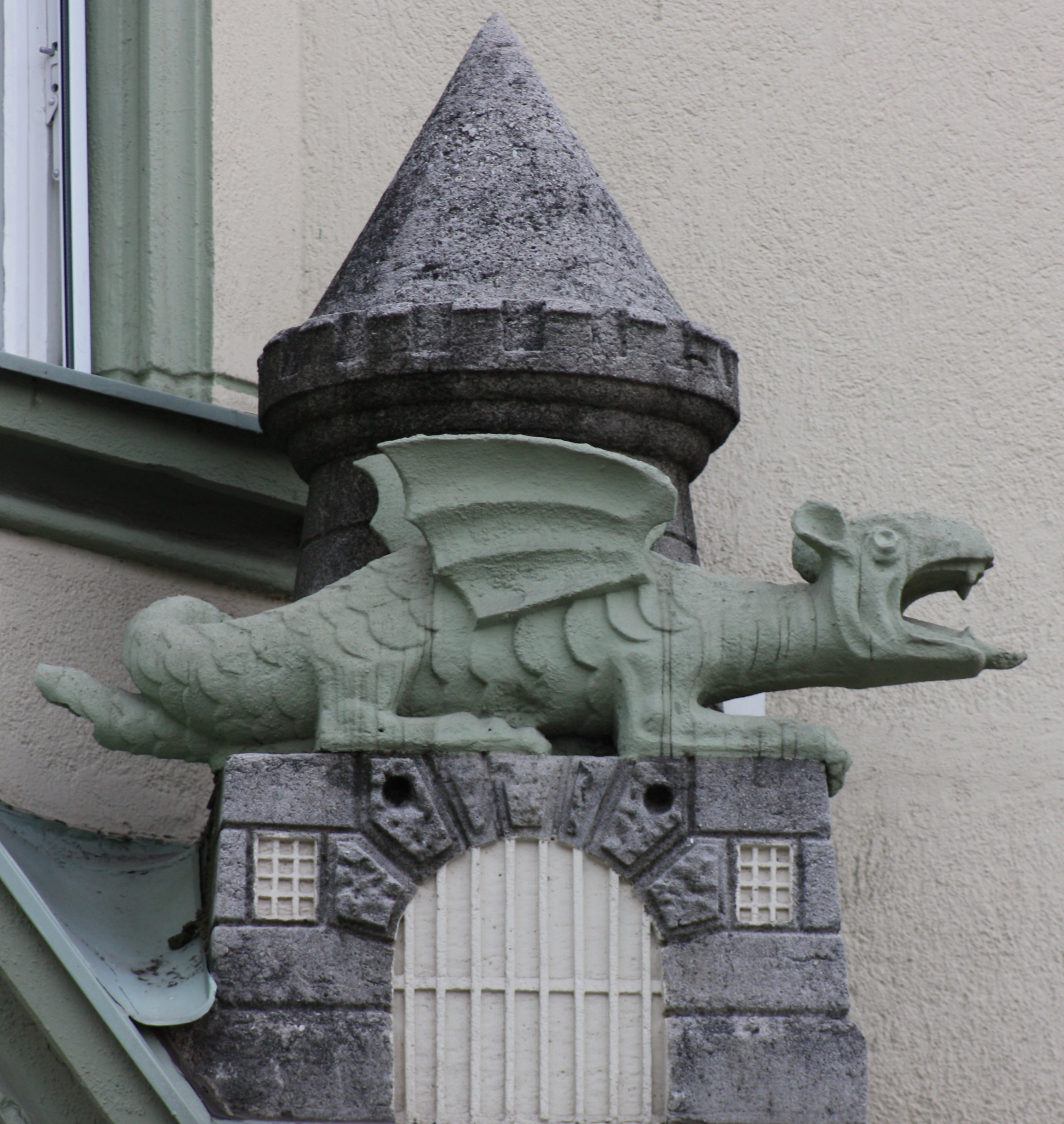 Stauderhaus in Klagenfurt - detail: Lindworm